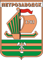 Petrozavodsk (Karelia), coat of arms (1973)